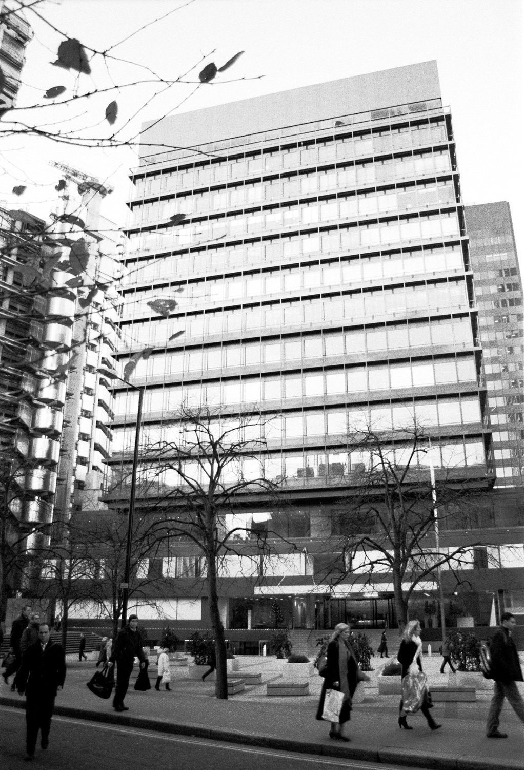 122 Leadenhall Street, 1960s built building, photo taken February 2007, before demolition